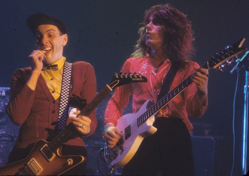 Cheap Trick